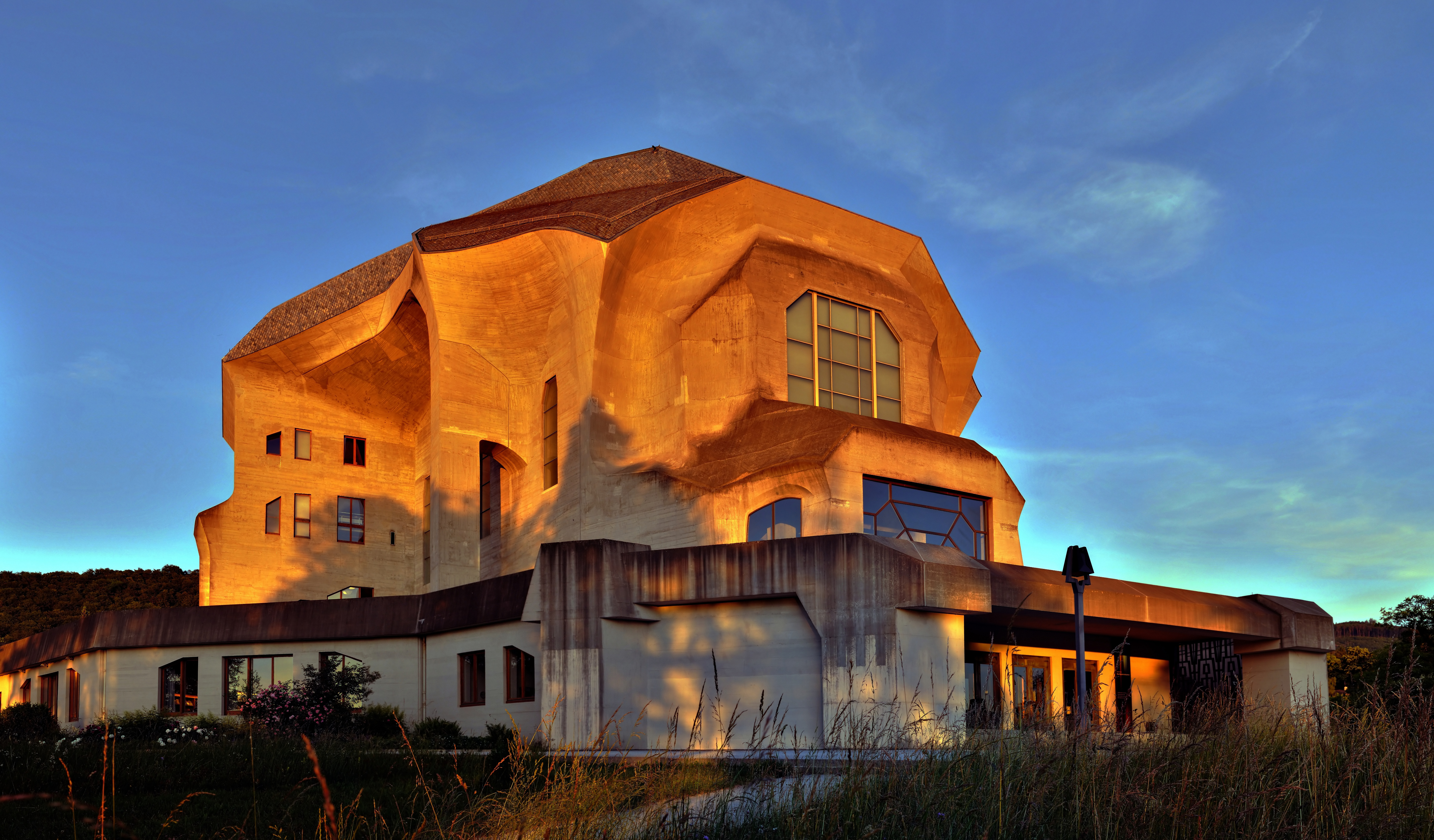 Dornach, Switzland: Goetheanum from northwest